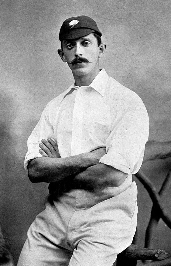 Sport, Cricket, Circa 1895, Lees Whitehead, Yorkshire